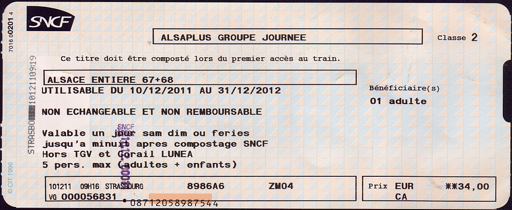 Railway ticket Alsa Plus Groupe Journée issued by french railways SNCF